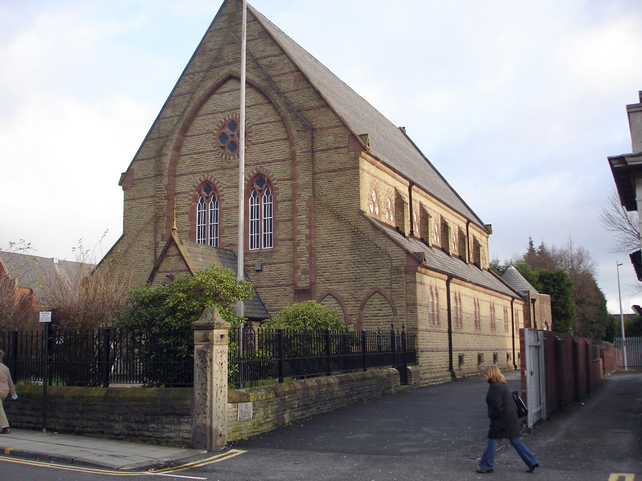 St Benedict Roman Catholic Church, Hindley, Wigan, UK